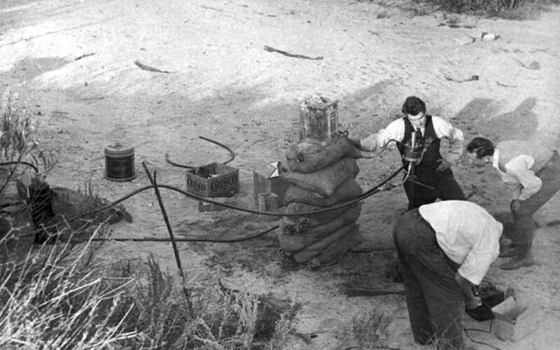 One of the early rocket motor experiments in the Arroyo Seco - 1936.